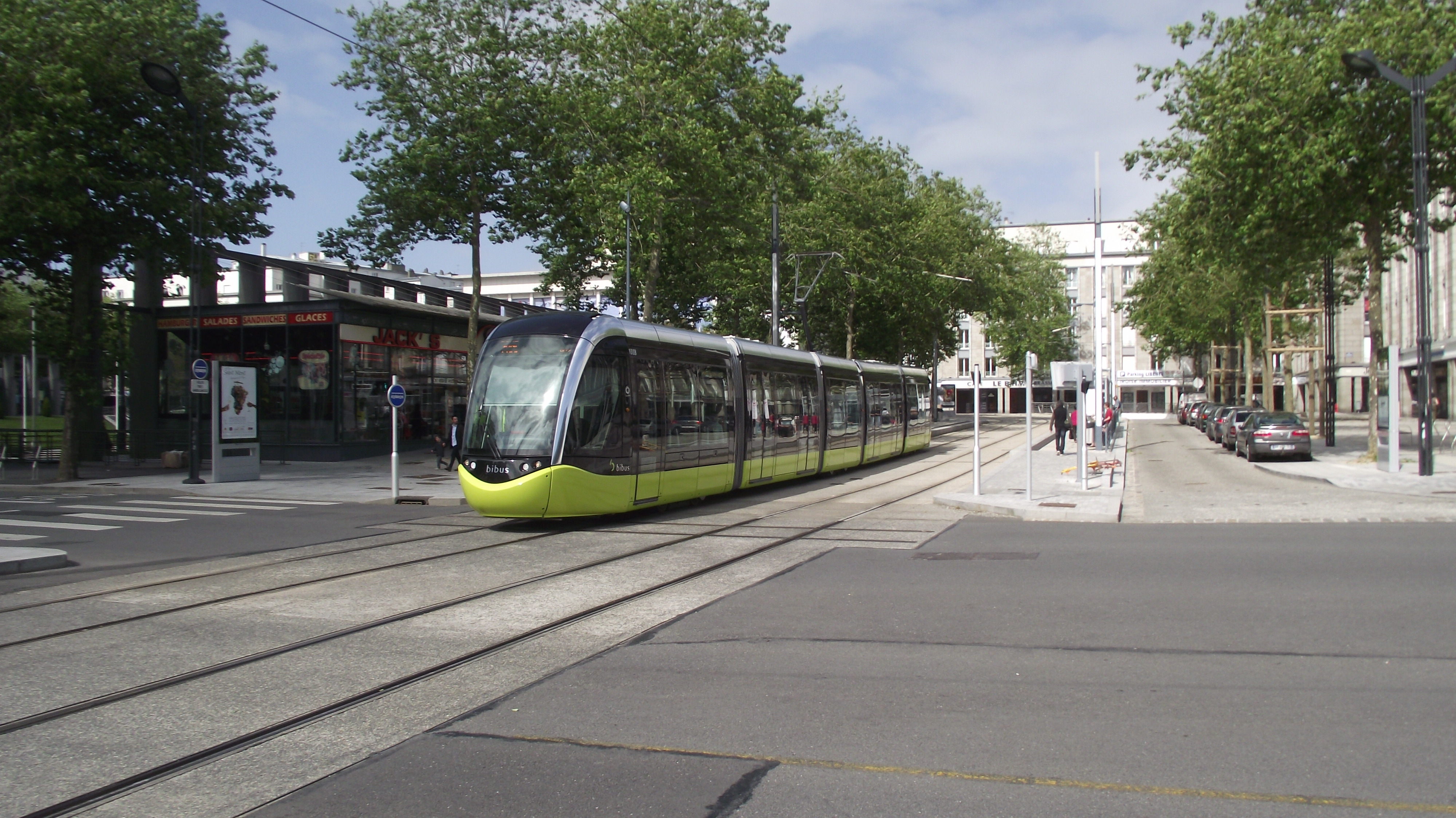 Tram in Brest by the Place de la Liberté